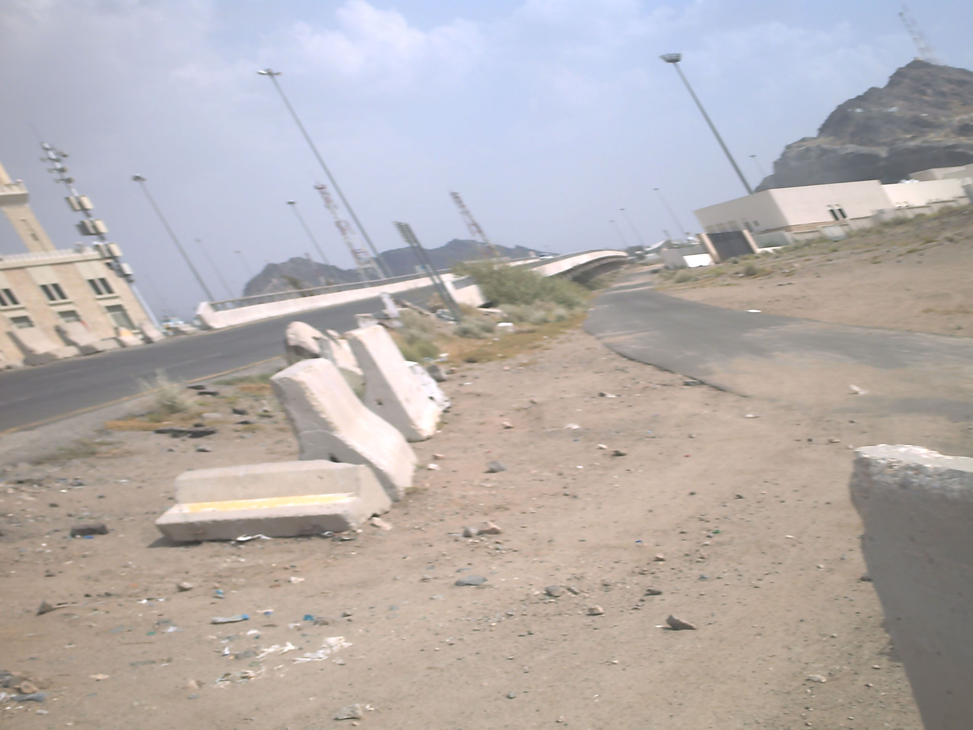 Muzdalifah